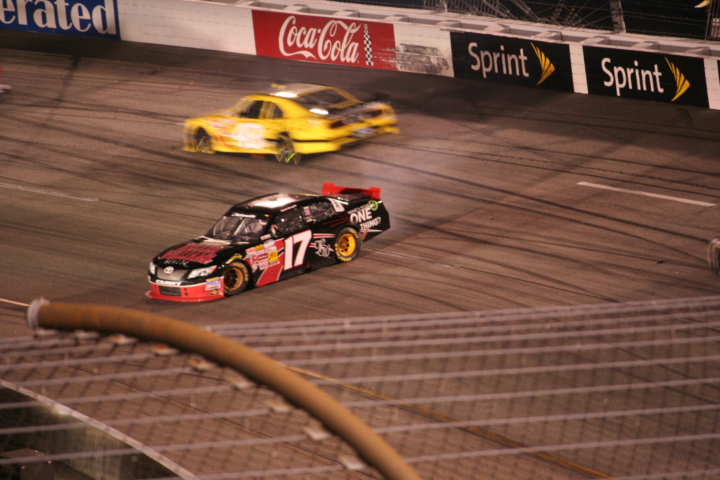 Tanner Berryhill is missed by Reed Sorenson following an accident during the 2013 ToyotaCare 250 at Richmond International Raceway.